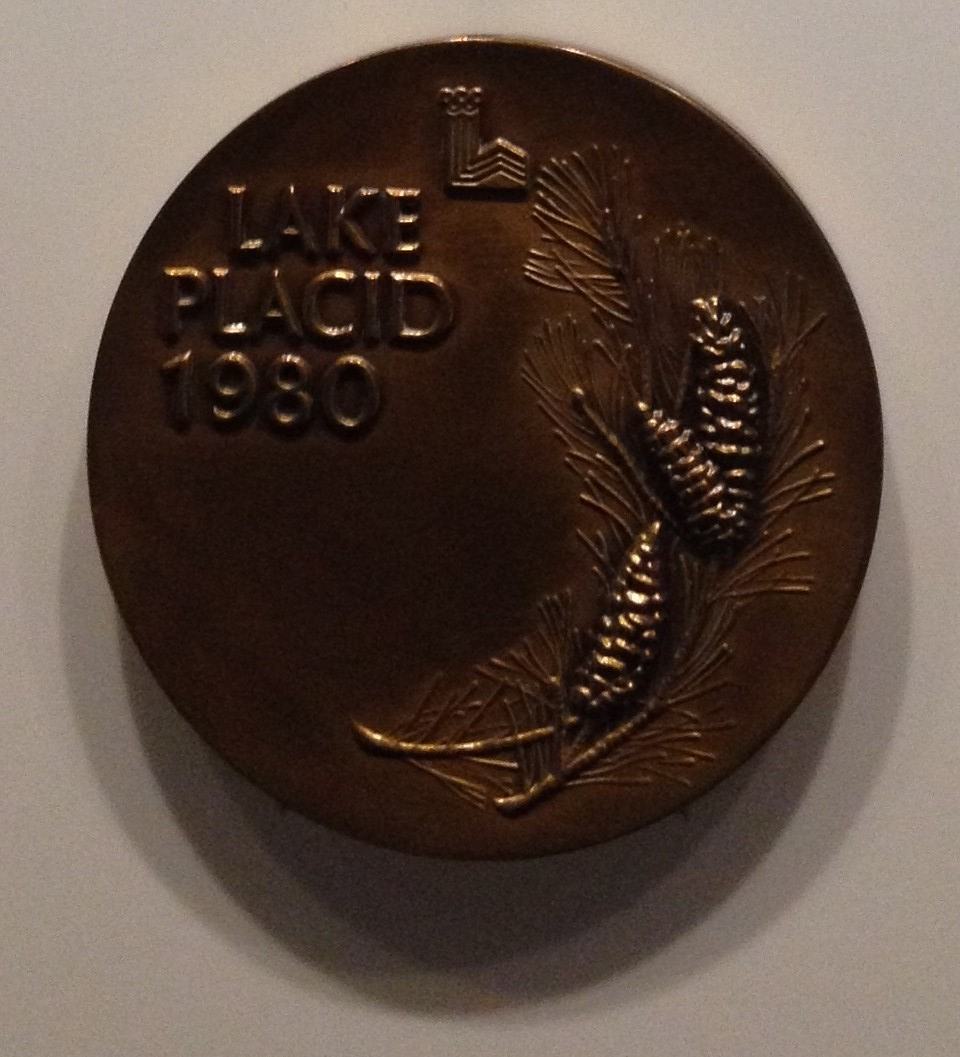 1980 Winter Olympics bronze medal currently held in the Olympic Museum in Lausanne, Switzerland. The medal was designed by Gladys Gunzer and minted by Medallic Arts and Company.